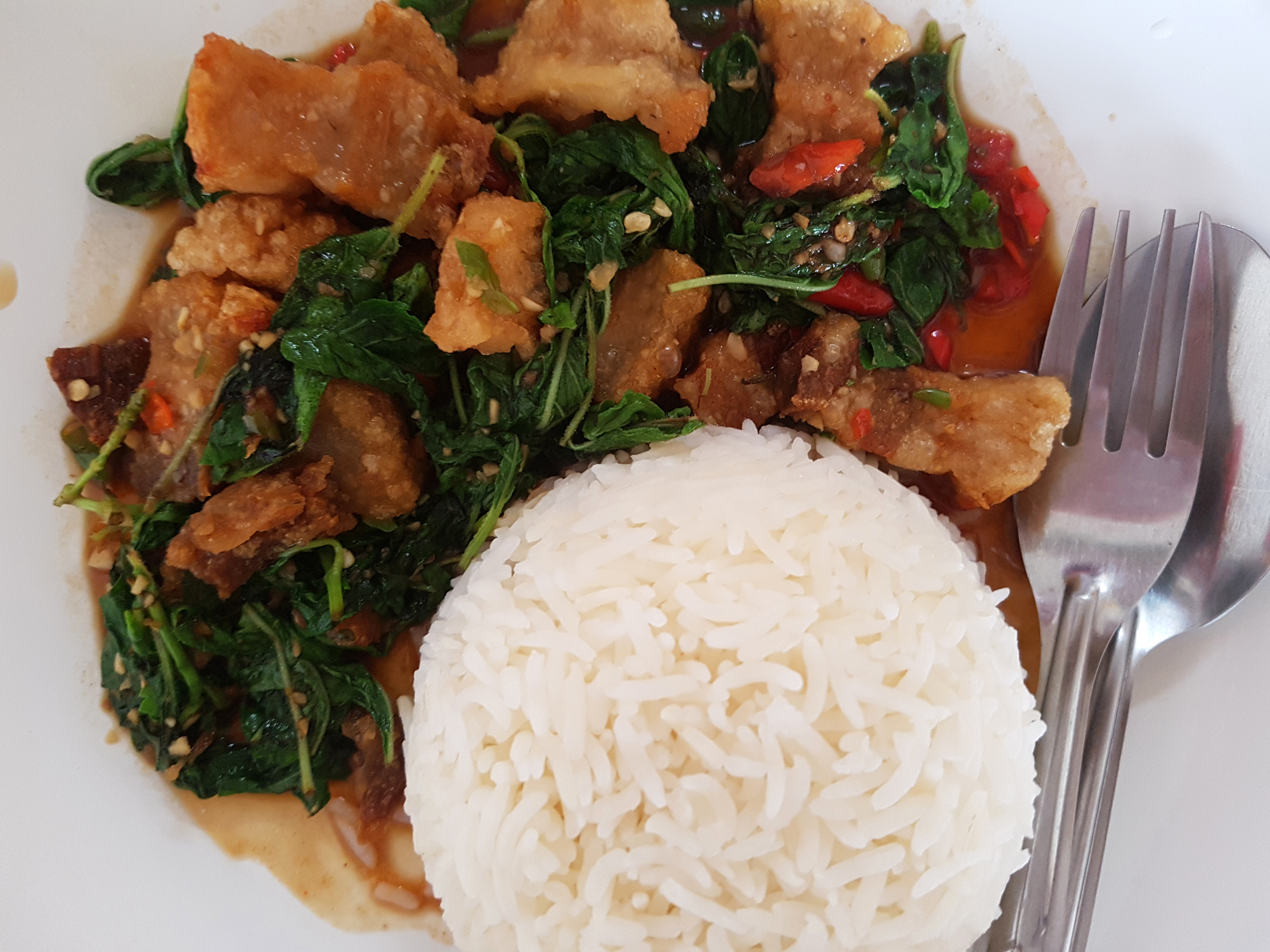 Basil fried crispy pork with rice (ข้าวกะเพราหมูกรอบ) as sold in Chiang Mai, Thailand.